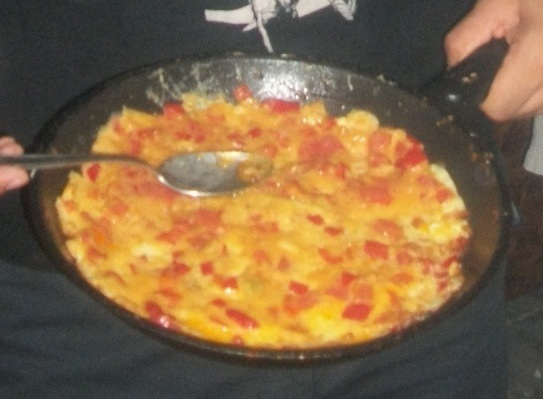 Egga is an Egyptian food where we mix onions,tomatoes,peppers,with eggs (some people add beans) This is an image of food from Egypt